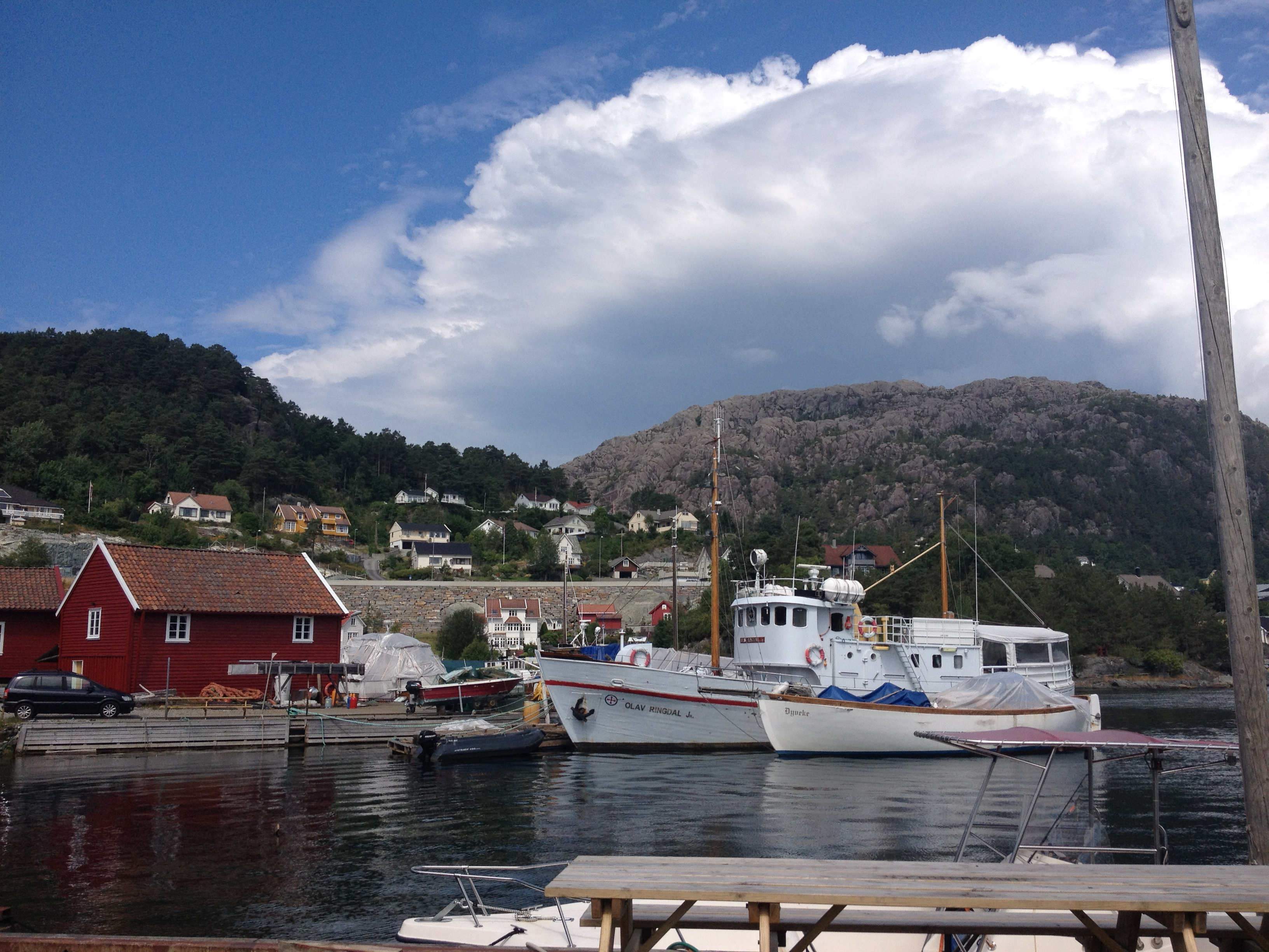 Ottesen skipsbyggeriNorsk bokmål: Ottesen skipsbyggeri